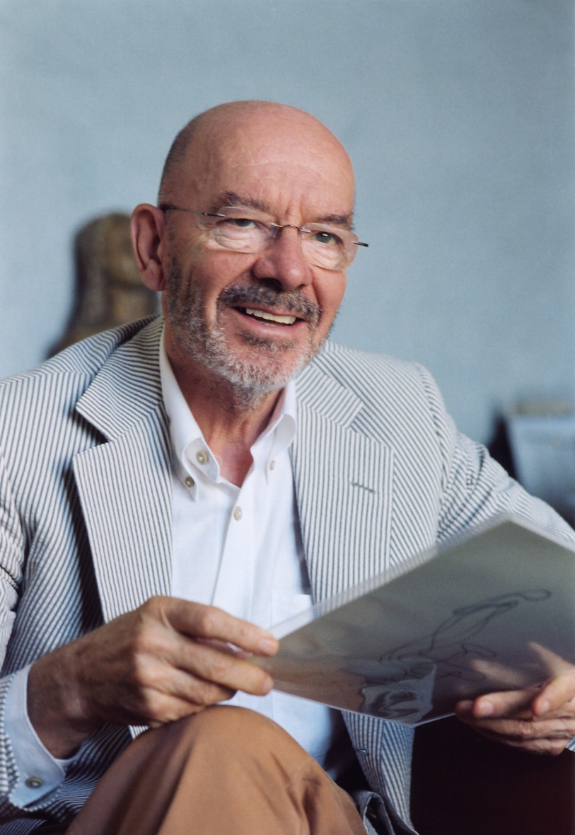 Copyright by Mario Bellini Associati Studio